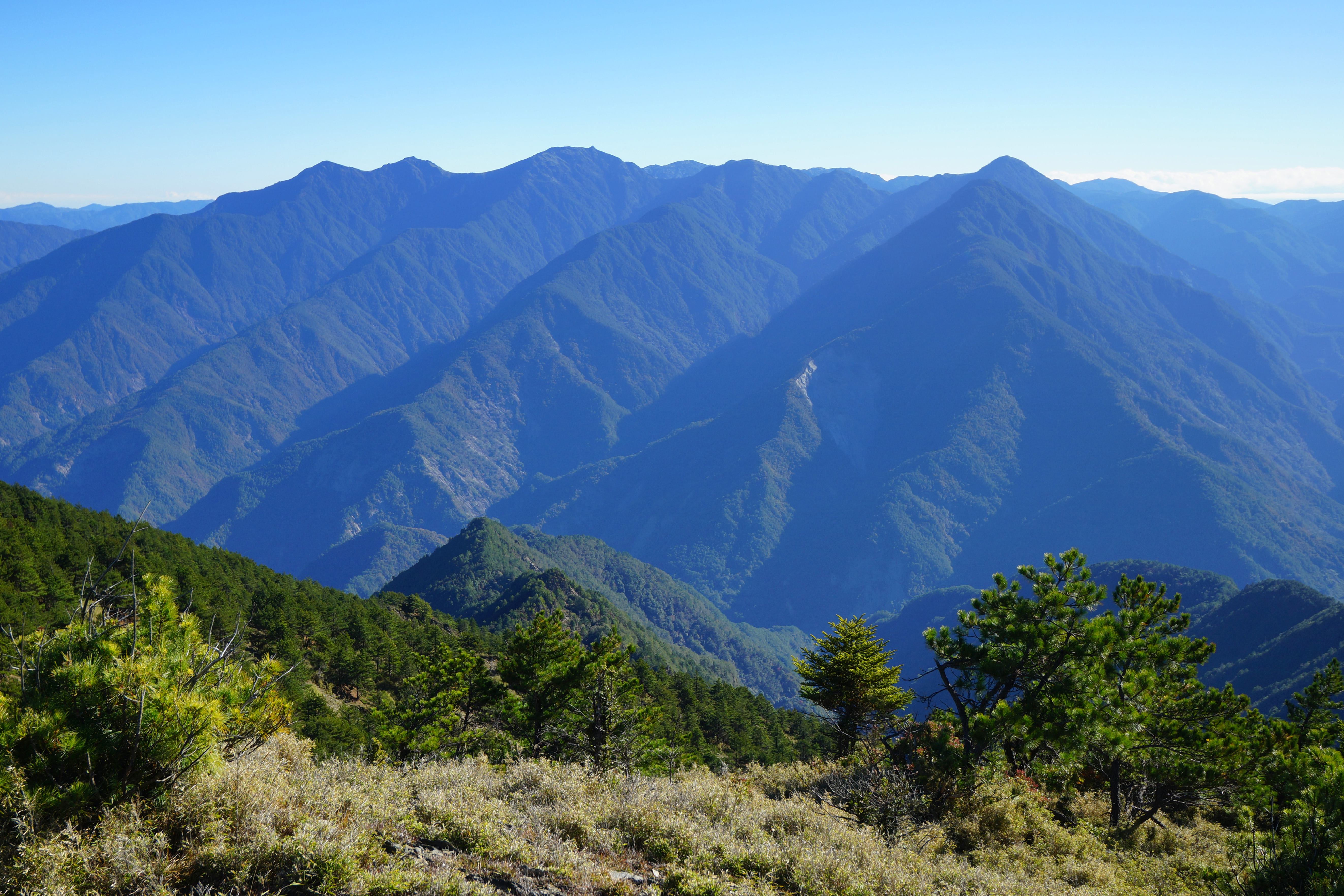 (From left) Mt.Dongjun (Dongjundashan,3619m), Mt. Dongluan(Dongluandashan,3360m) & Mt.Wushuang(Wushuangshan, 3231m) 中文（台灣）: 台灣百岳，東郡大山